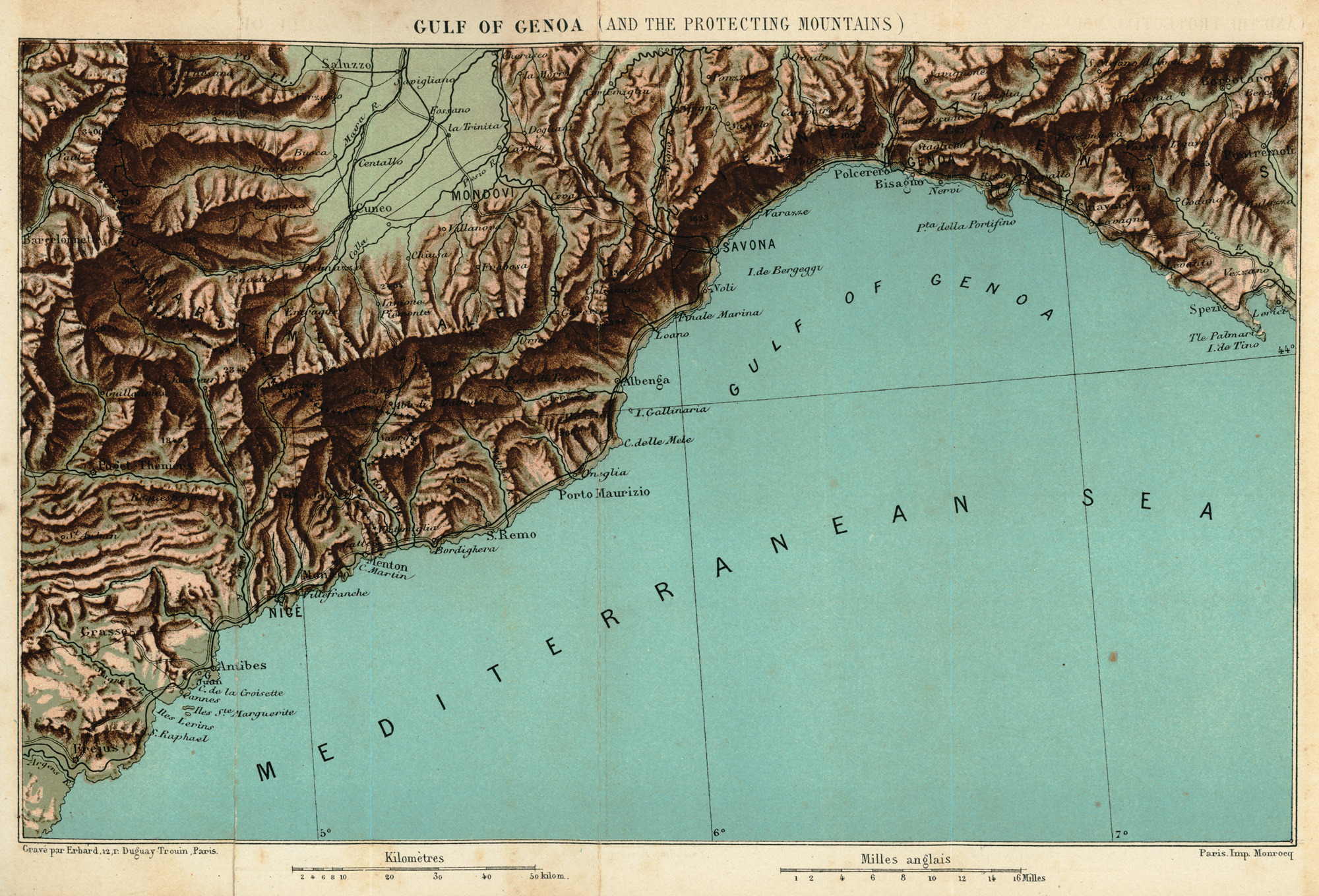 Gulf of Genova (and the protecting mountains) - Bennet James Henry M - 1875